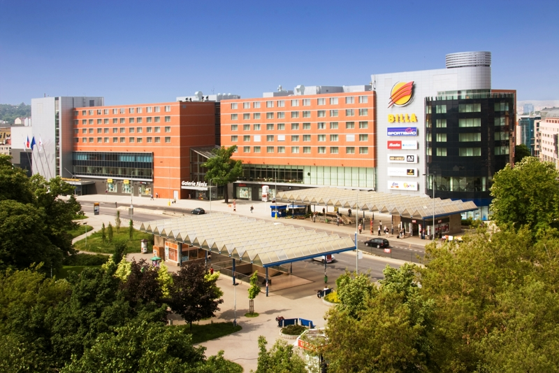 Shopping mall Galerie Fénix Vysočanská